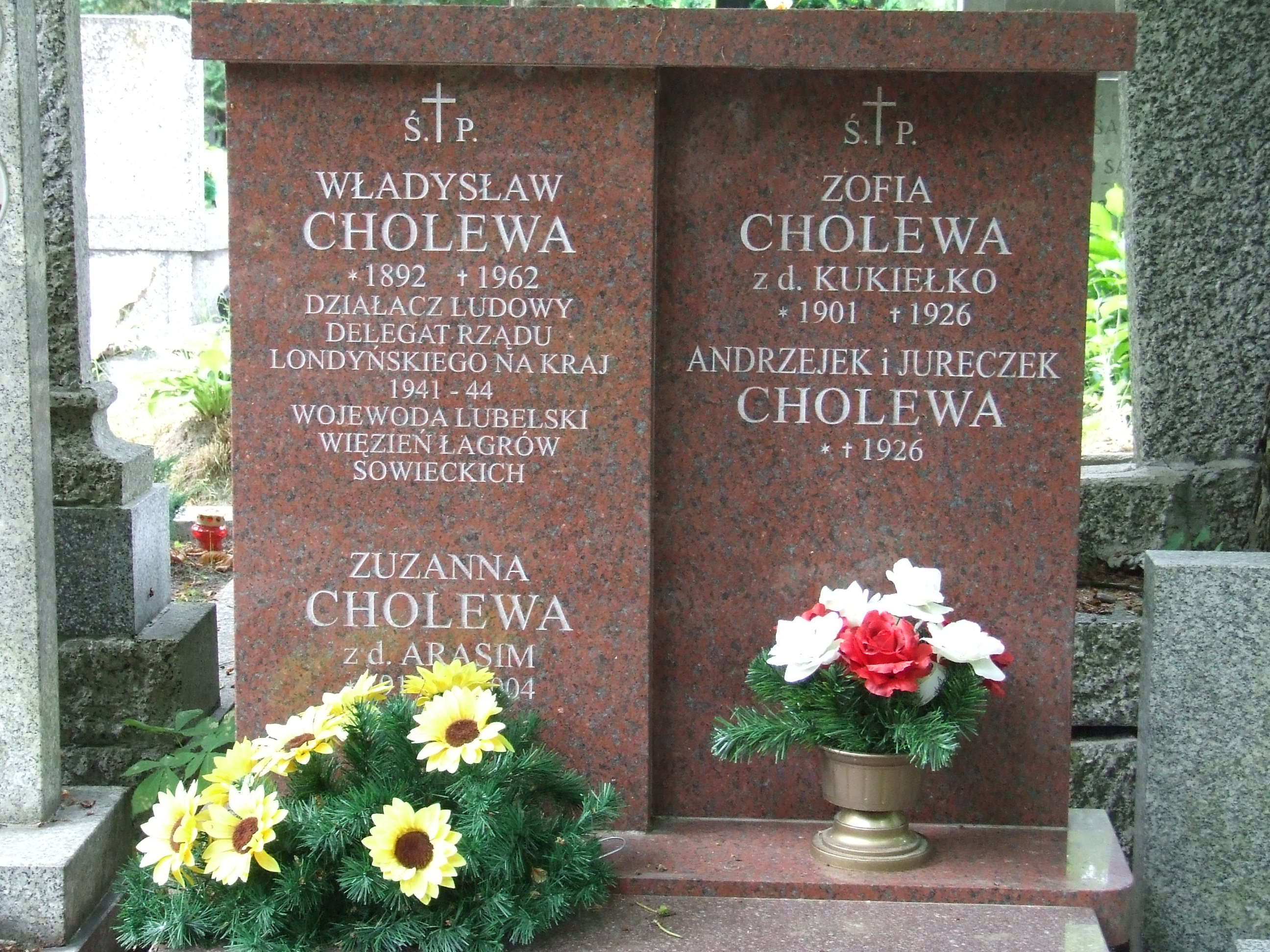 Grave of Władysław Cholewa